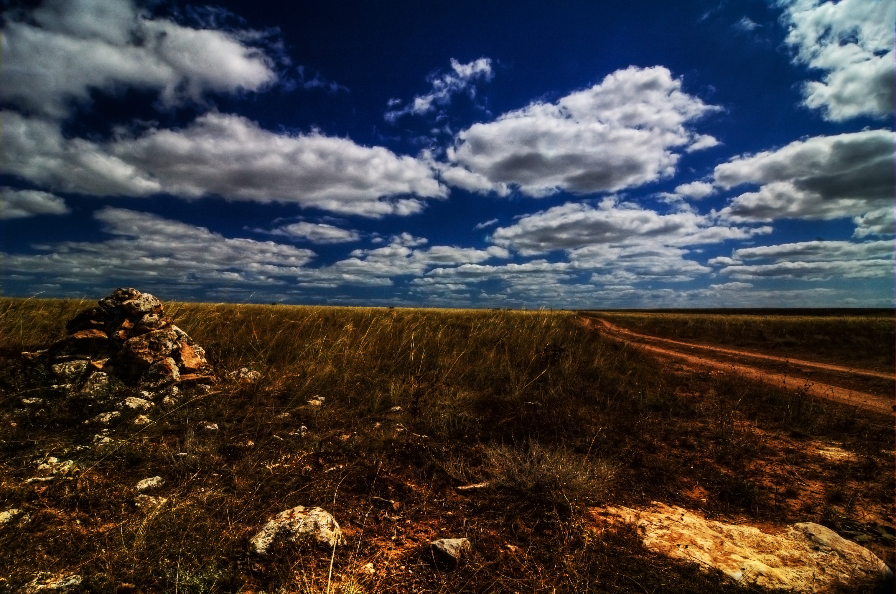 By the road to the nearest village there were piles of rocks placed near to each other. I have no idea who and why made it there but it looked like those tombs the Mongols and the Tatars erected on the tombs of their warriors during war campaigns. There were days when the Tatars ruled this land.